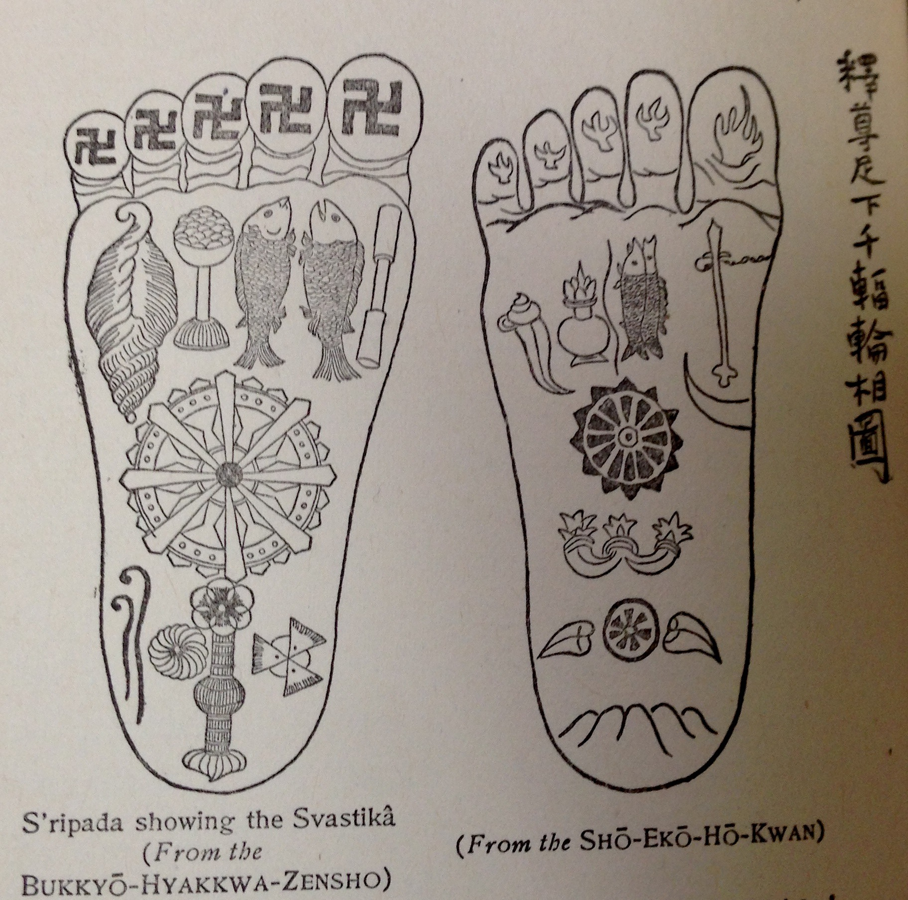 Published by Little, Brown, and Company, 1899